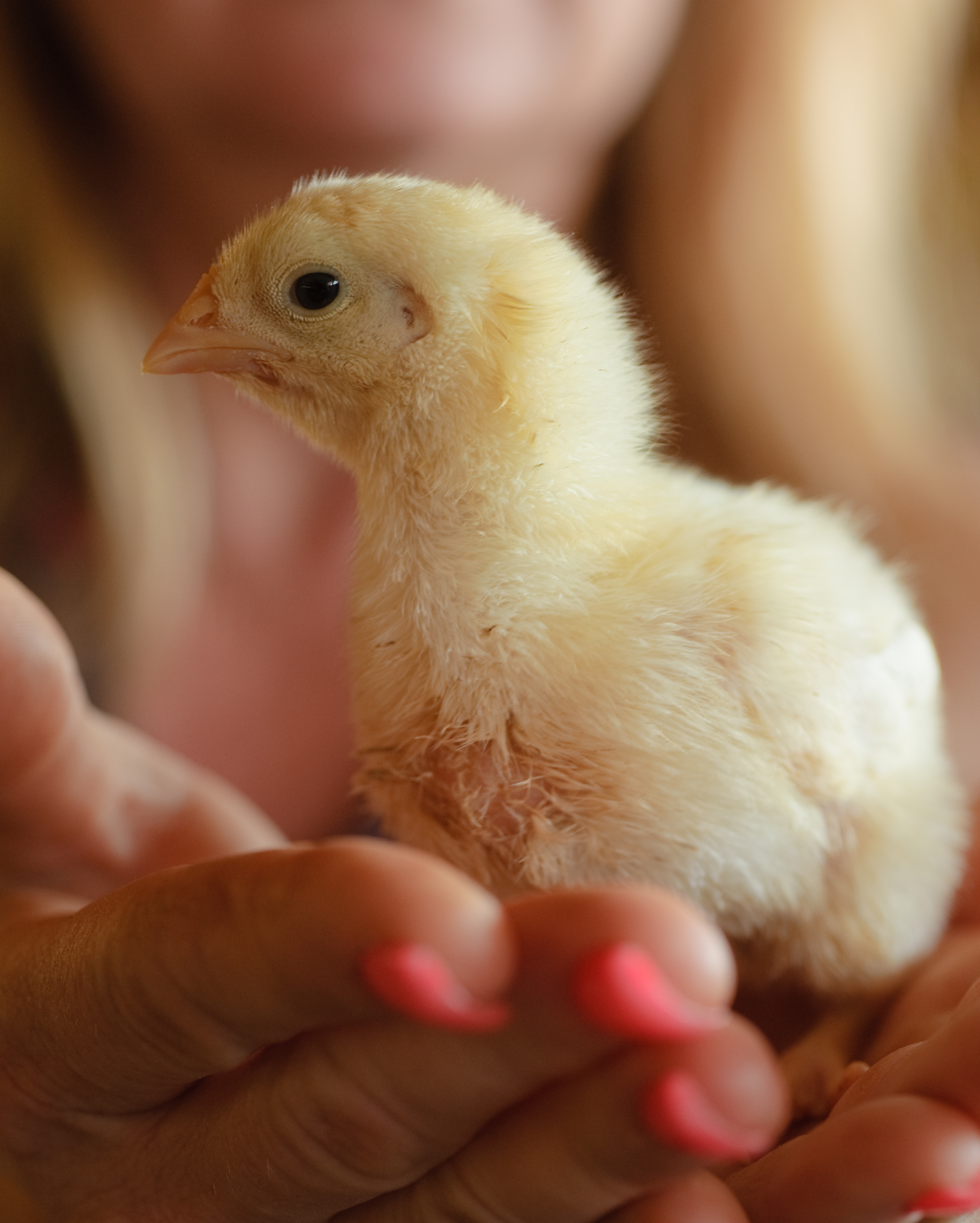 This image or file is a work of a United States Department of Agriculture employee, taken or made as part of that person's official duties. As a work of the U.S. federal government, the image is in the public domain.